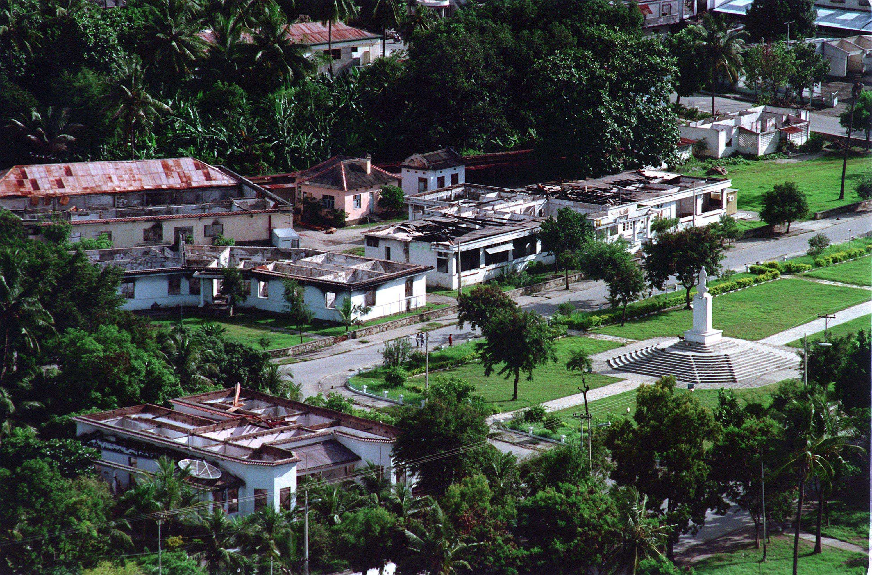 USS Blue Ridge (LCC-19), 10 February 2000, Dili, East Timor--Aerial photos of the Dili, East Timor coastline. (photo by PH3 Dan Mennuto).